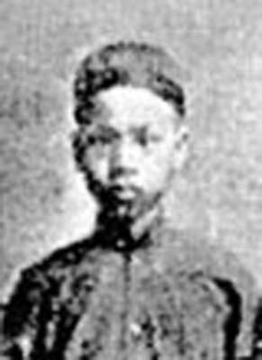 Hong Yen Chang (1860－1926)